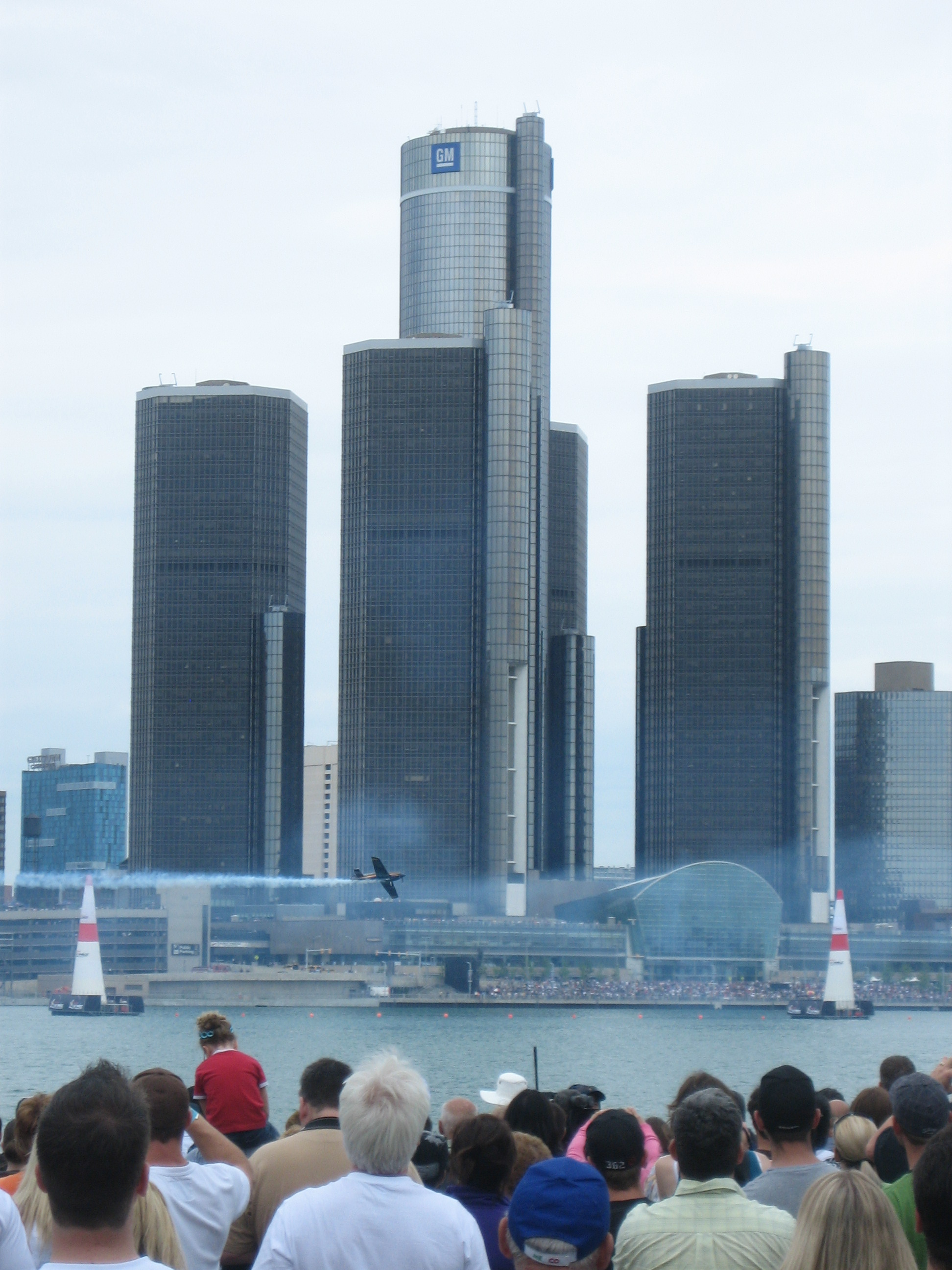 2009 Red Bull Air Race in Windsor, Ontario with view of the Detroit, Michigan skyline in the background.